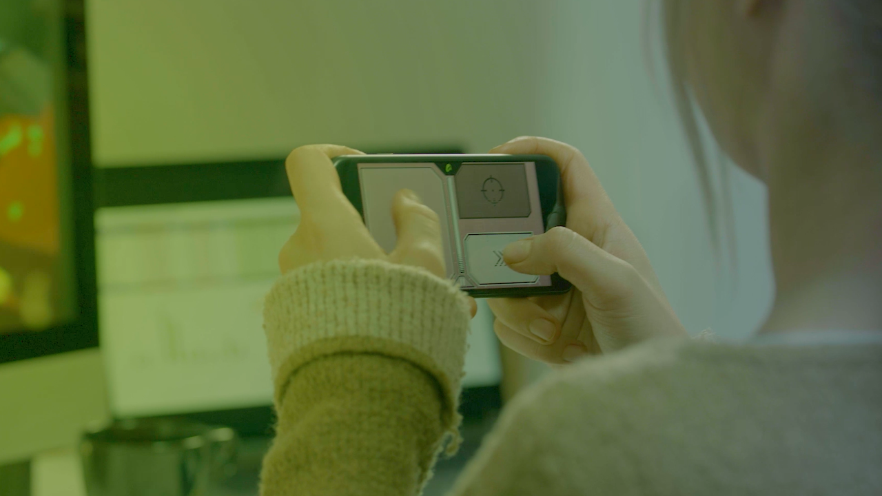 Smartphones as controller on AirConsole